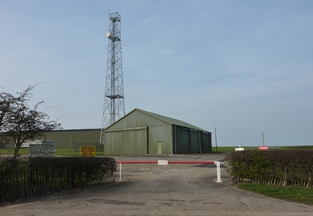 RAF Barkston Heath Crash Gate (Number 6) This is one of seven crash gates situated around the airfield. These gates are used by the MOD Fire Service, mainly to exit the airfield in the event of a plane crash taking place off the main site. You can also see the MT Shed, Communications Mast and part of the T2 Hangar in the background.